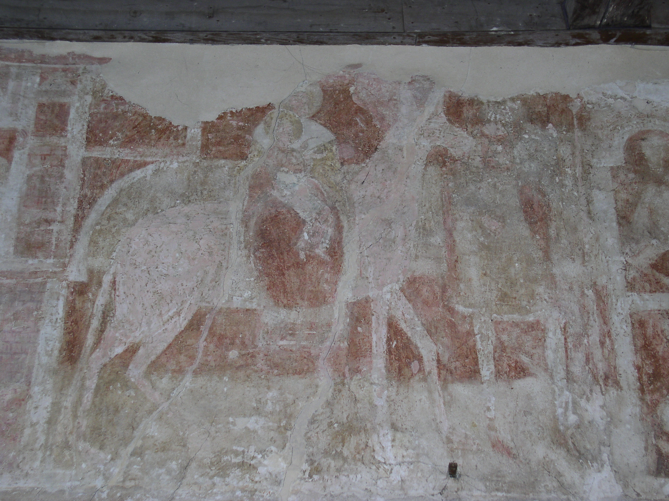 Church of England parish church of St Botolph, Hardham, West Sussex, England: painting on north wall of nave, showing the flight of the Holy Family into Egypt.